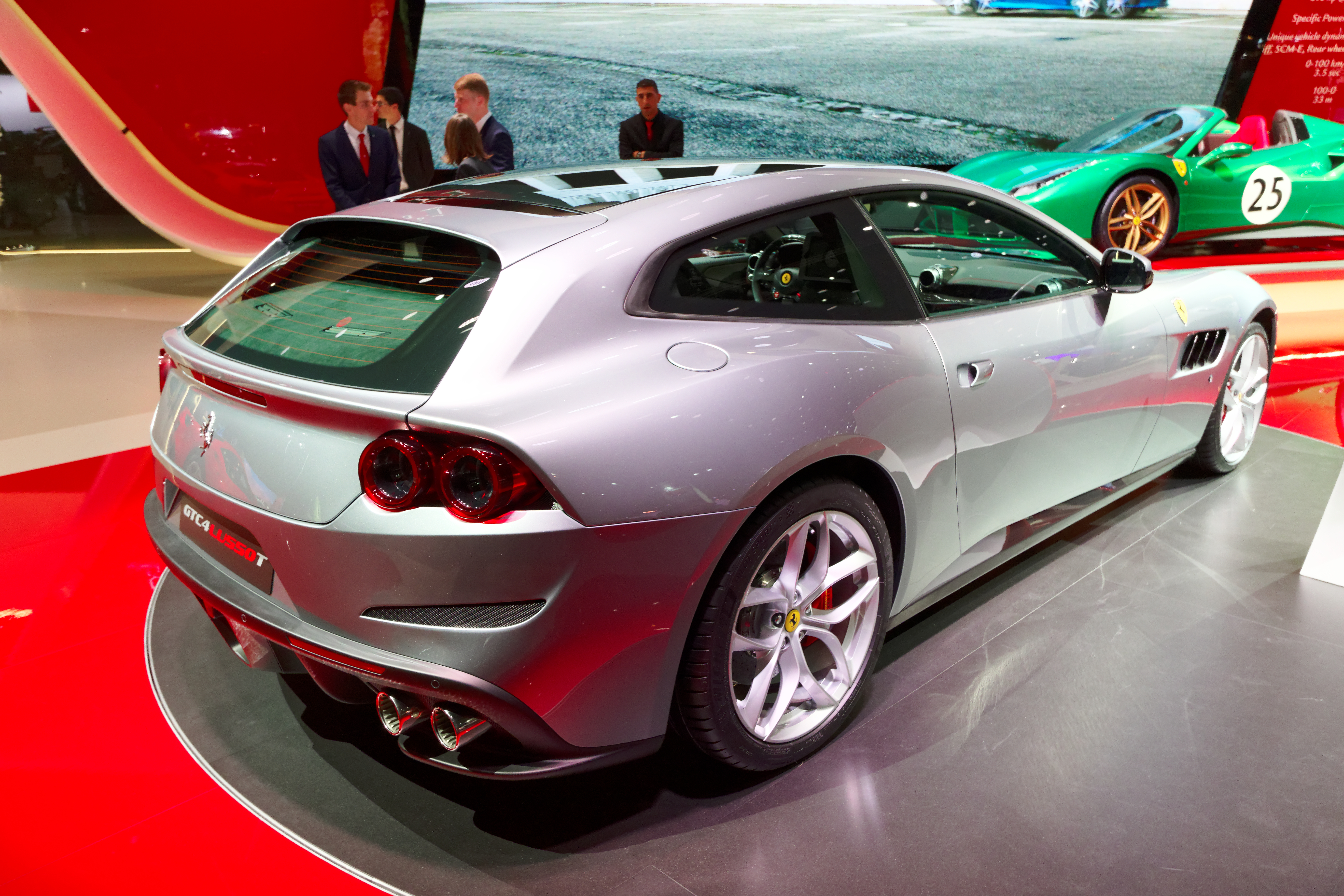 Ferrari GTC4 Lusso T - Mondial de l'Automobile de Paris 2016, rear view. right side nice exhaust view and rims. Paris 2016. picture taken at the Ferrari at Mondial de l'Automobile de Paris 2016